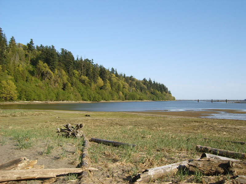 Looking south from the large sandy area near trail 6.